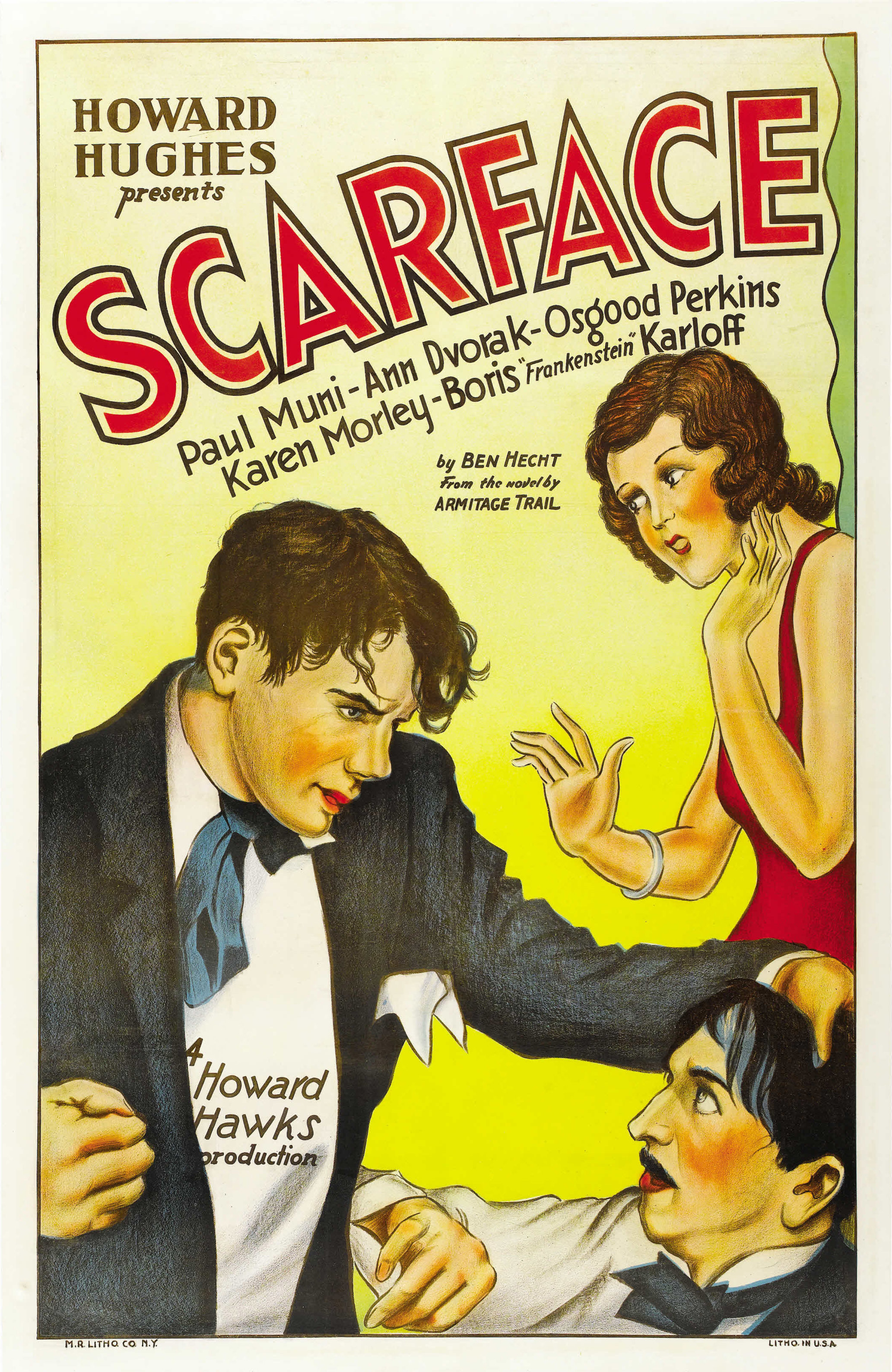 Theatrical poster for the release of the 1932 American film It's a Wonderful Life.